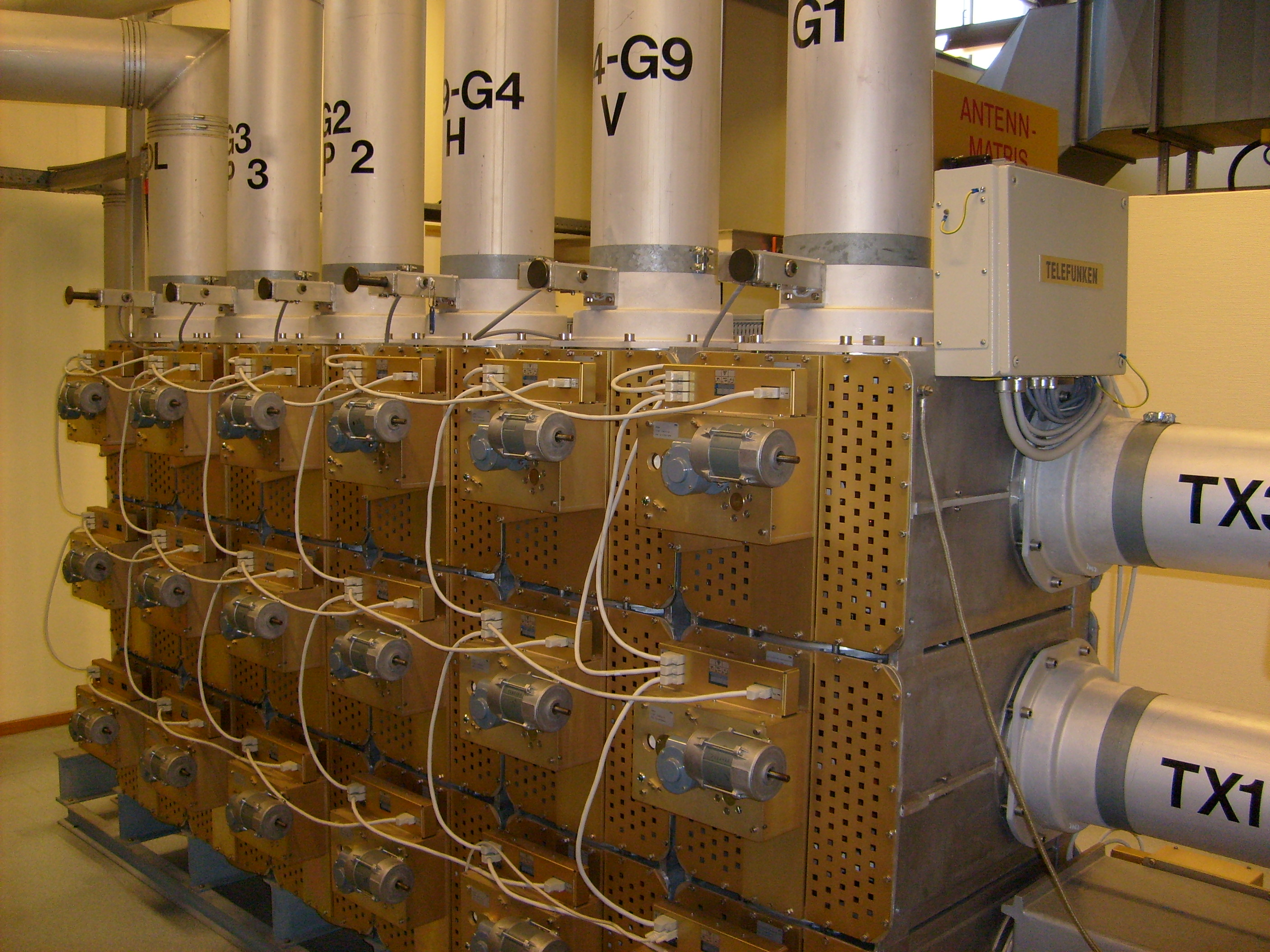 Antenna matris at Hoerby shortwave station, Sweden